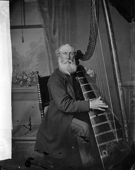 1 negative : glass, wet collodion, b&w ; 12.5 x 10 cm.